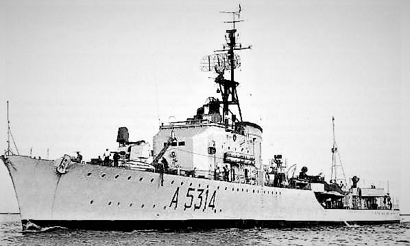 The destroyer Carabiniere (A 5314) transformed in Testing Ship on December 1, 1960